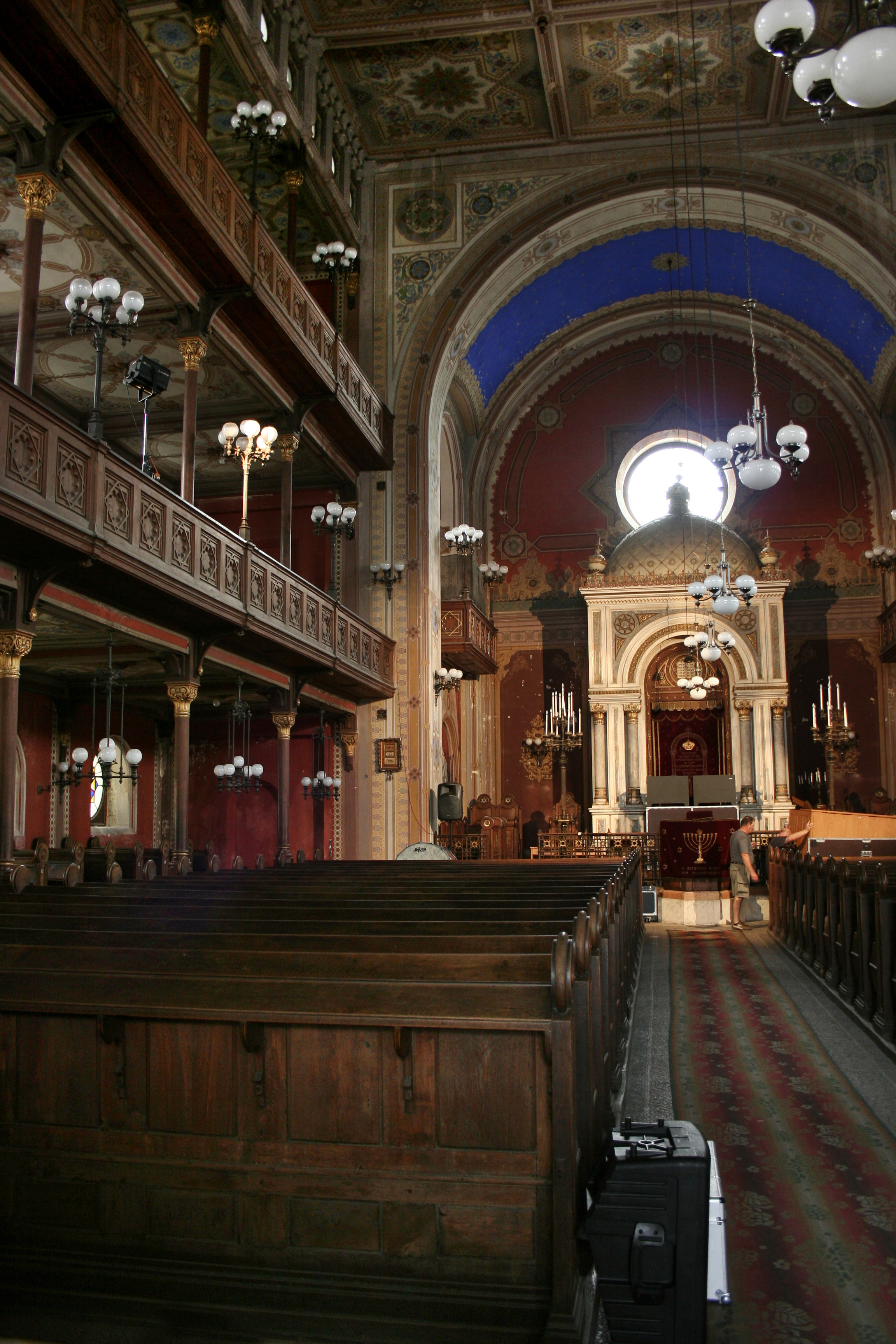 Pecs - Synagogue before concert. 2009 Hungary